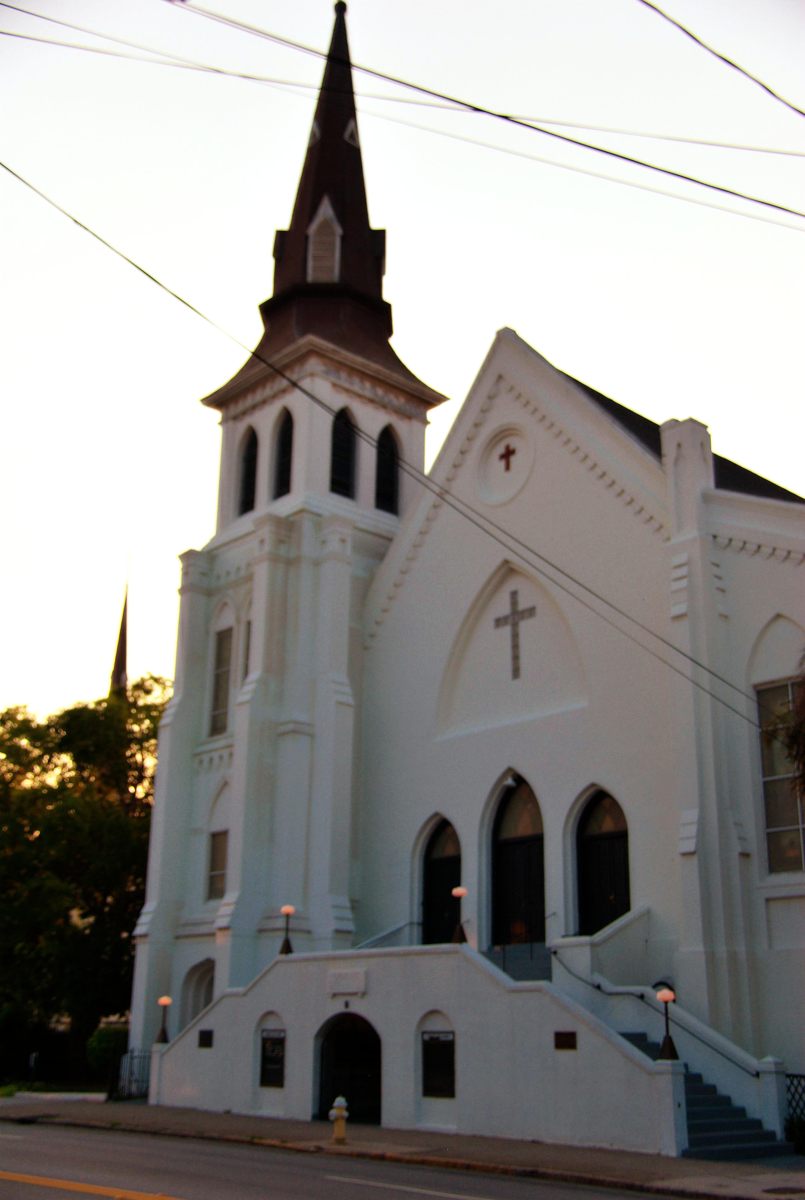 This is the oldest AME church in the south and the second oldest in the world.